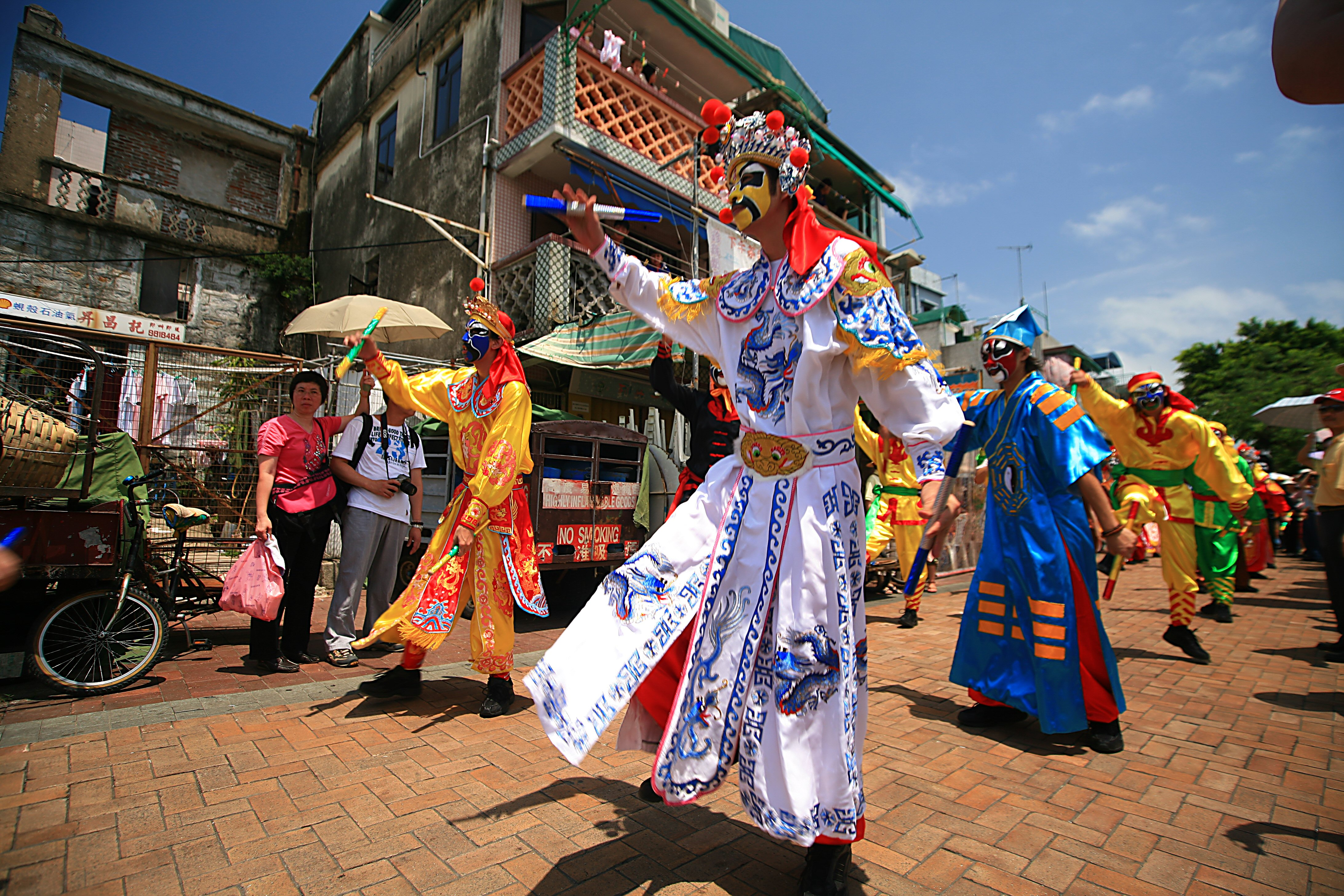 Check out these participants in today's "Flying Colors Parade." Man do they know how to throw a party! The parade is a major part of the annual Bun Festival held on the island of Cheung Chau. The festival is scheduled to coincide with Buddha's Birthday. Happy Birthday, Oh Wise One!!! At midnight tonight, teams of contestants will scramble up 5 story tall towers, literally covered with steamed, bean-filled buns. Whoever collects the most buns from the tower walls, wins. What a hoot! My bet is on the "home team."